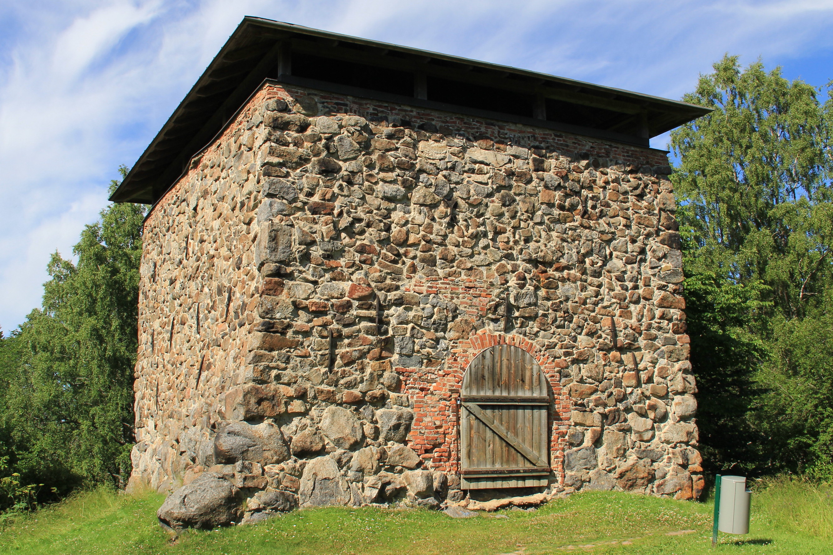 Old Vasa belfry ruins, Vaasa, Finland. - Seen from southwest.